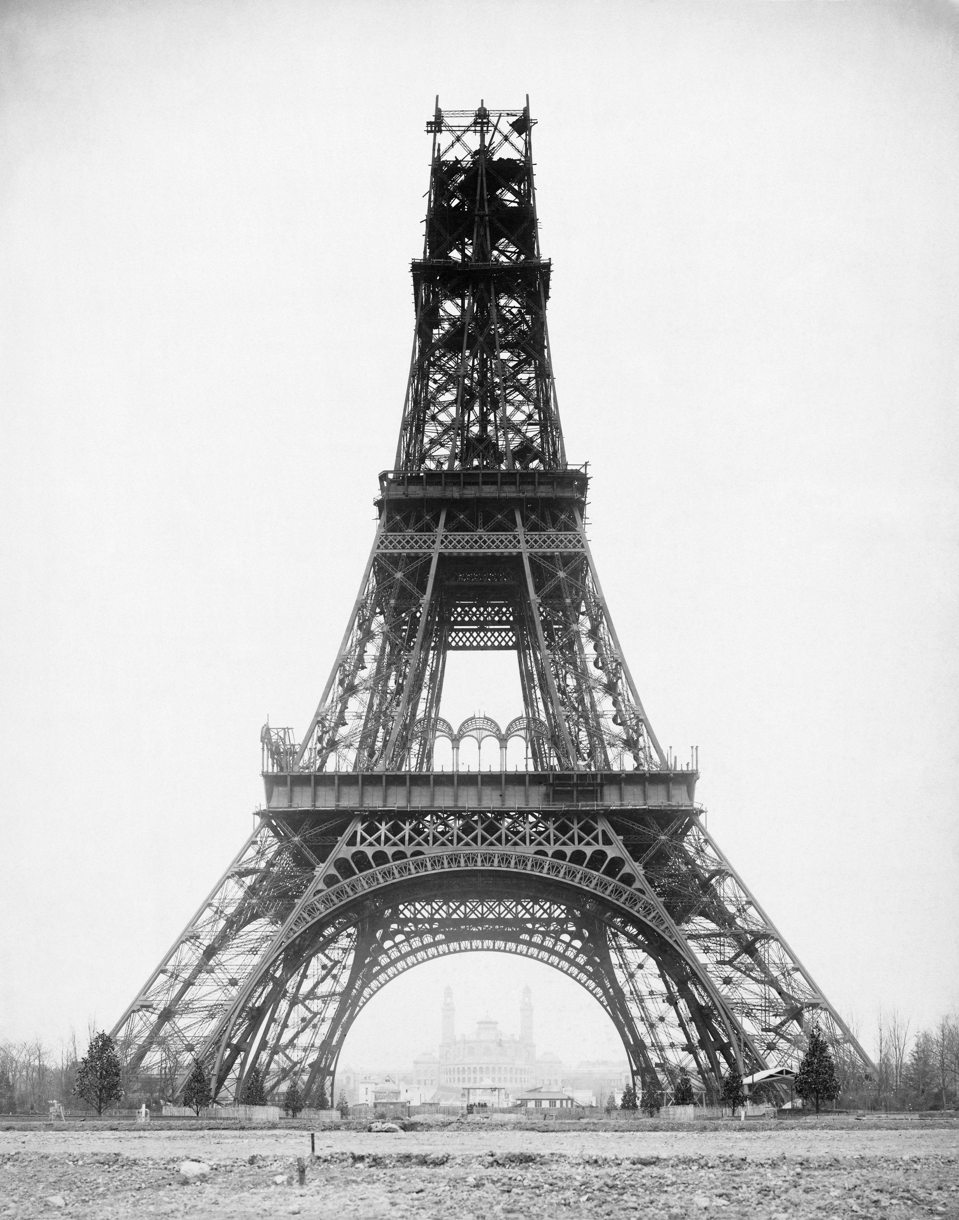 The Centennial Exposition of 1889 was organized by the French government to commemorate the French Revolution. Bridge engineer Gustave Eiffel's 984-foot (300-meter) tower of open-lattice wrought iron was selected in a competition to erect a memorial at the exposition. Twice as high as the dome of St. Peter's in Rome or the Great Pyramid of Giza, nothing like it had ever been built before. This view was made about four months short of the tower's completion. Louis-Émile Durandelle photographed the tower from a low vantage point to emphasize its monumentality. The massive building barely visible in the far distance is dwarfed under the tower's arches. Incidentally, the tower's innovative glass-cage elevators, engineered to ascend on a curve, were designed by the Otis Elevator Company of New York, the same company that designed the Getty Center's diagonally ascending tram.